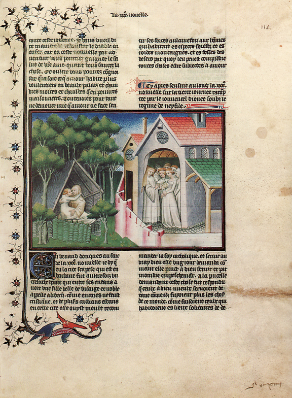 Decameron III 10